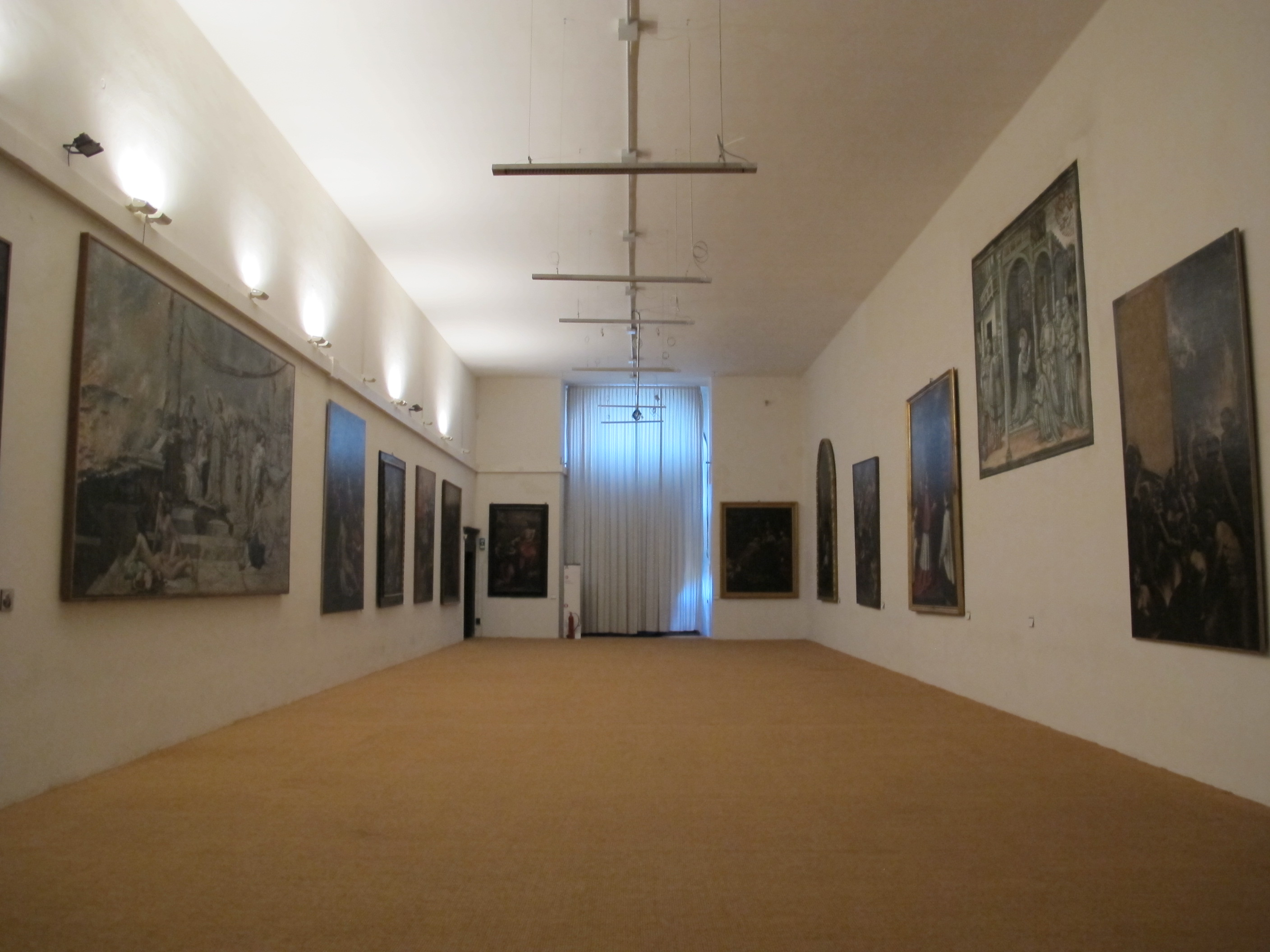 Santa Maria della Scala Hospital (Siena)